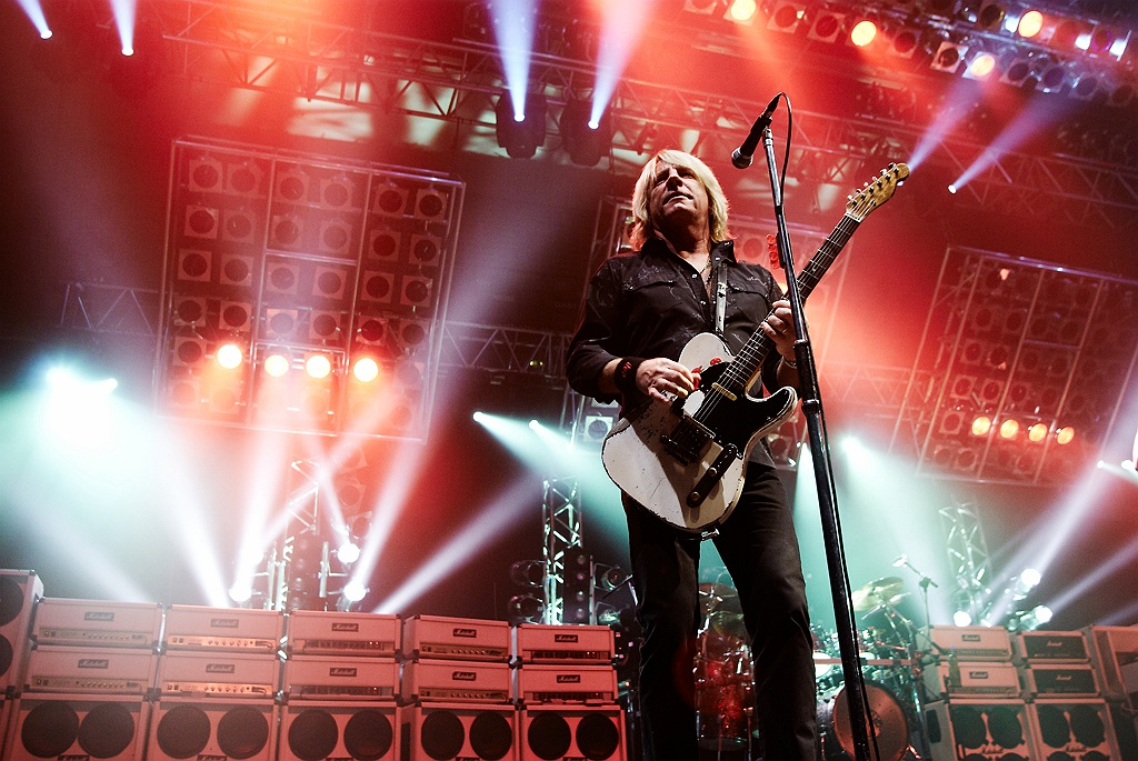 Status Quo @ Classic Rock Festival Hamburg